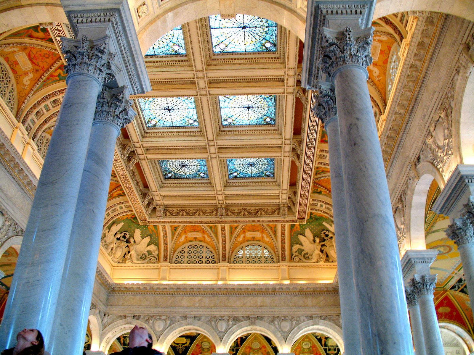 Interior of Thomas Jefferson Building — in Washington, D.C. "From the monuments and memorials to its great civic and government buildings, DC is full of amazing architecture, but in my opinion the city has two absolute gems - places where I can get lost standing still. One is the Library of Congress - this is just the foyer!"the library of congress: look something up, or just look up